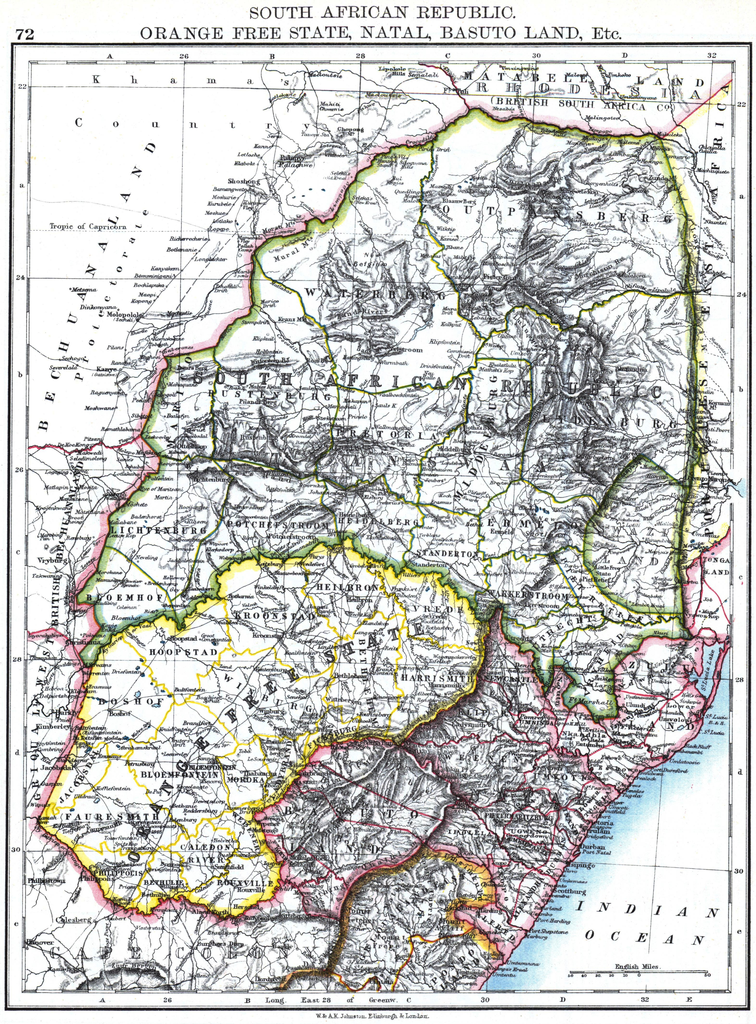 Johnston, W. and A.K. - South African Republic. Orange Free State, Natal, Basuto Land, Etc. [1897]